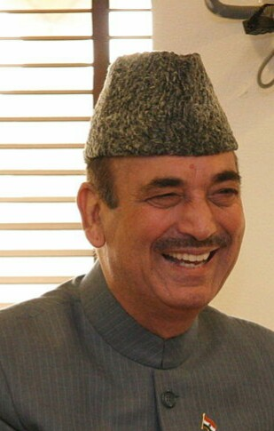 Kathleen Sebelius, Secretary of the U.S. Department of Health and Human Services, met with Ghulam Nabi Azad, Minister of Health and Family Welfare, during her six day visit to India. U.S. and India officials recognized India’s tremendous progress toward elimination of polio, and agreed to strengthen collaboration in health systems development, biomedical research and food and drug safety.” U.S. Embassy photo by New Delhi photographer